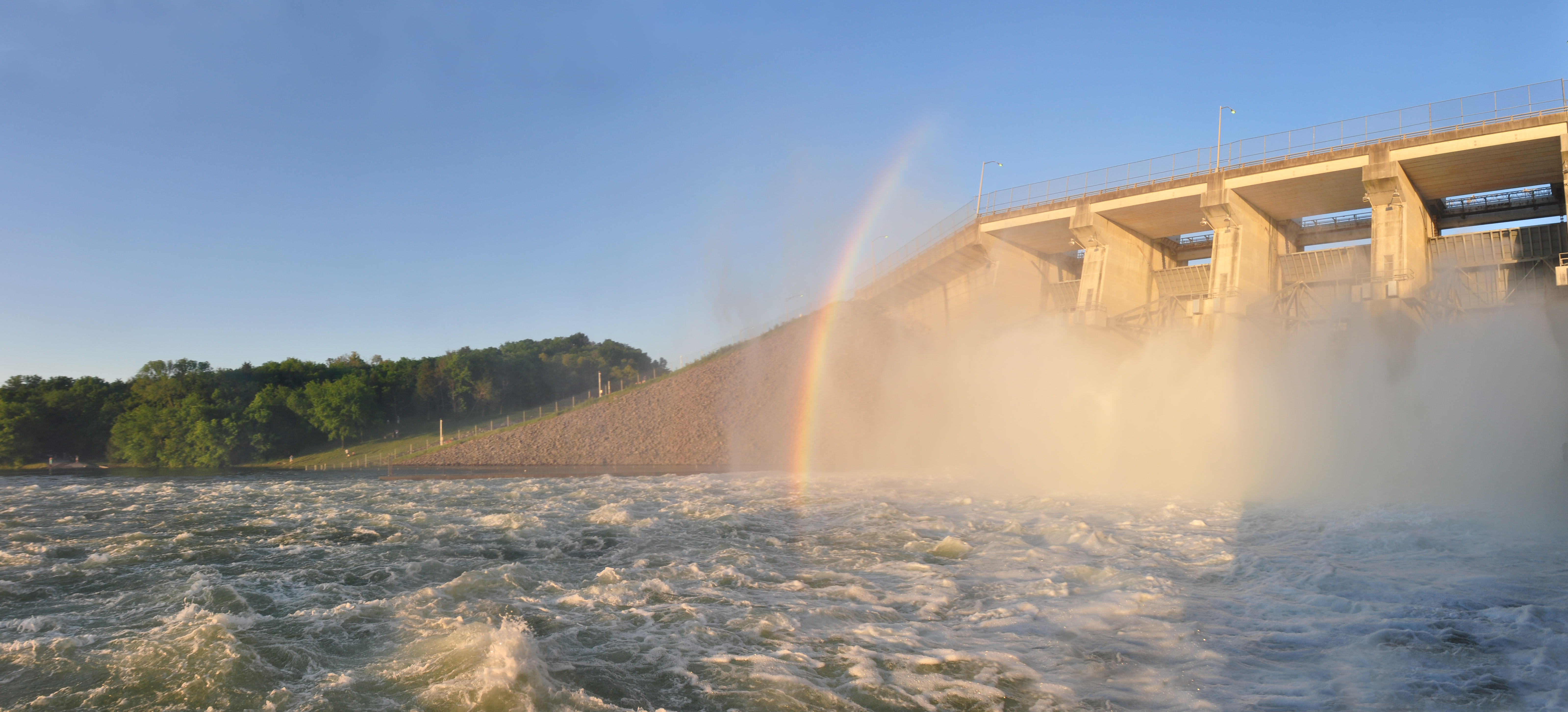 Nashville-Tenn. (May 3, 2010) Water as high as waist deep spilled into the streets of Nashville on May 2, 2010. The federal government on Tuesday authorized a major disaster declaration for the Middle Tennessee counties of Cheatham, Davidson, Hickman and Williamson. Tennessee Governor Phil Bredesen asked President Obama Monday to declare 52 counties federal disaster areas following the severe storms, tornadoes and flooding that struck the state beginning Friday, April 30. Across the state, at least 18 fatalities have been confirmed due to flooding including nine in Nashville and Davidson County. The Cumberland River crested at 51.8 feet between 5 p.m. and 6 p.m. Monday and has begun to recede. Experts expect the river to be below flood level, or below 40 feet, by the end of the week. Photo by Mark Rankin U.S. Army Corps of Engineers, Nashville District. Copyright Mark Rankin